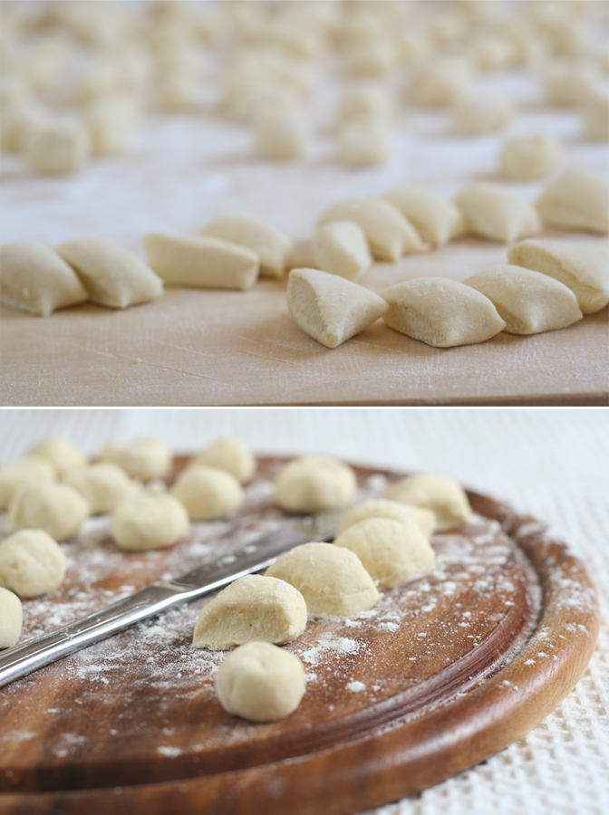 Gnocchi with ricotta being prepared.